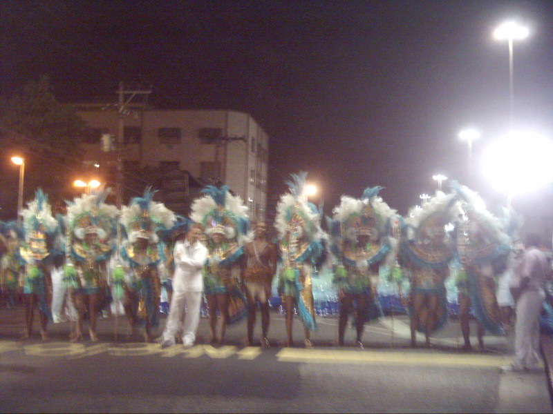 front comission of samba School Acadêmicos da Abolição in carnival 2009.